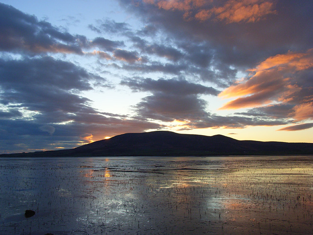 Criffel from Caerlaverock The sun, which briefly came out on a rainy day, had disappeared behind the hill which is seen across the estuary of the River Nith. The marshes and estuary are home to huge numbers of migrating geese at this time of year.